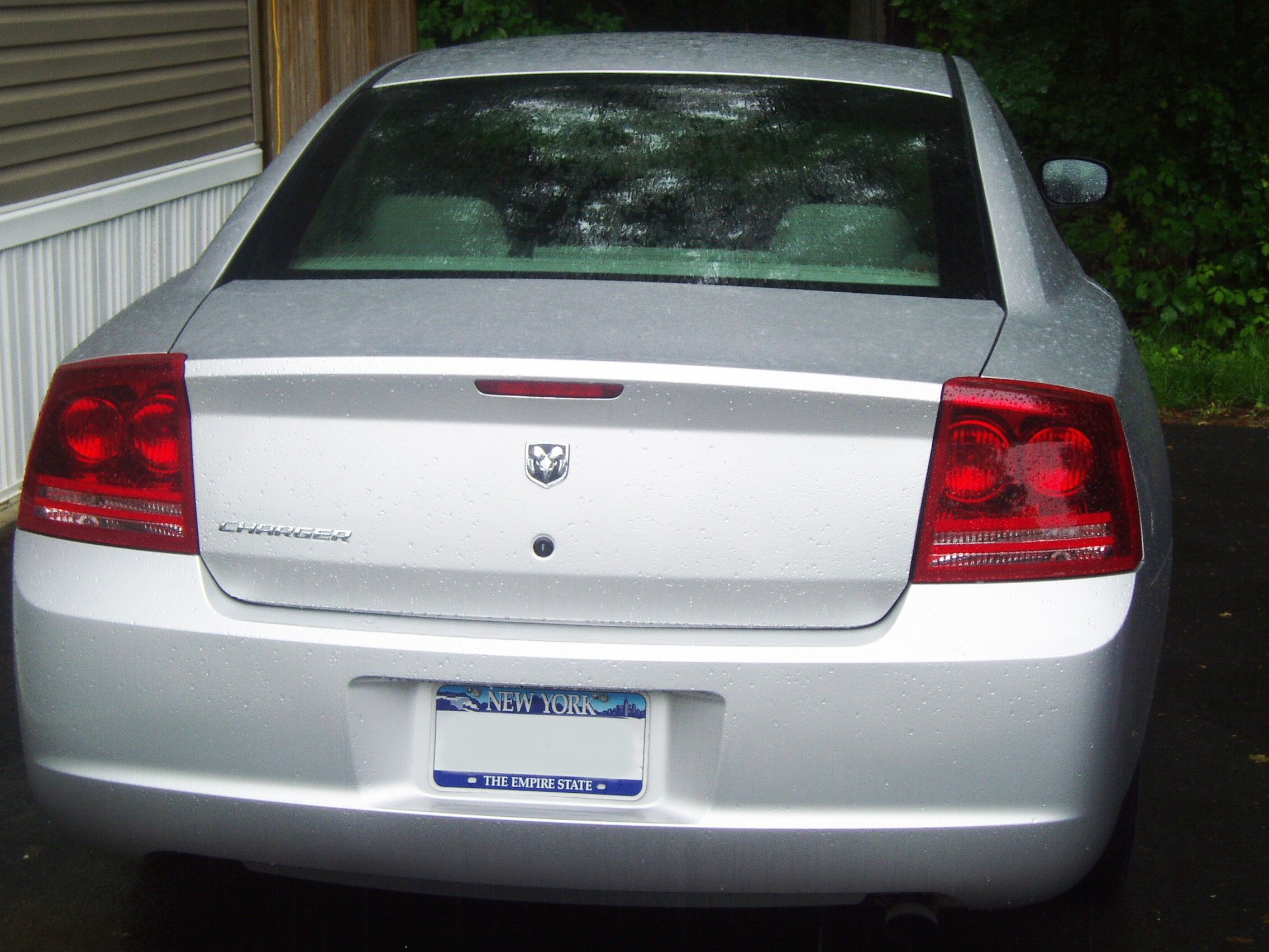 2006_Dodge_Charger